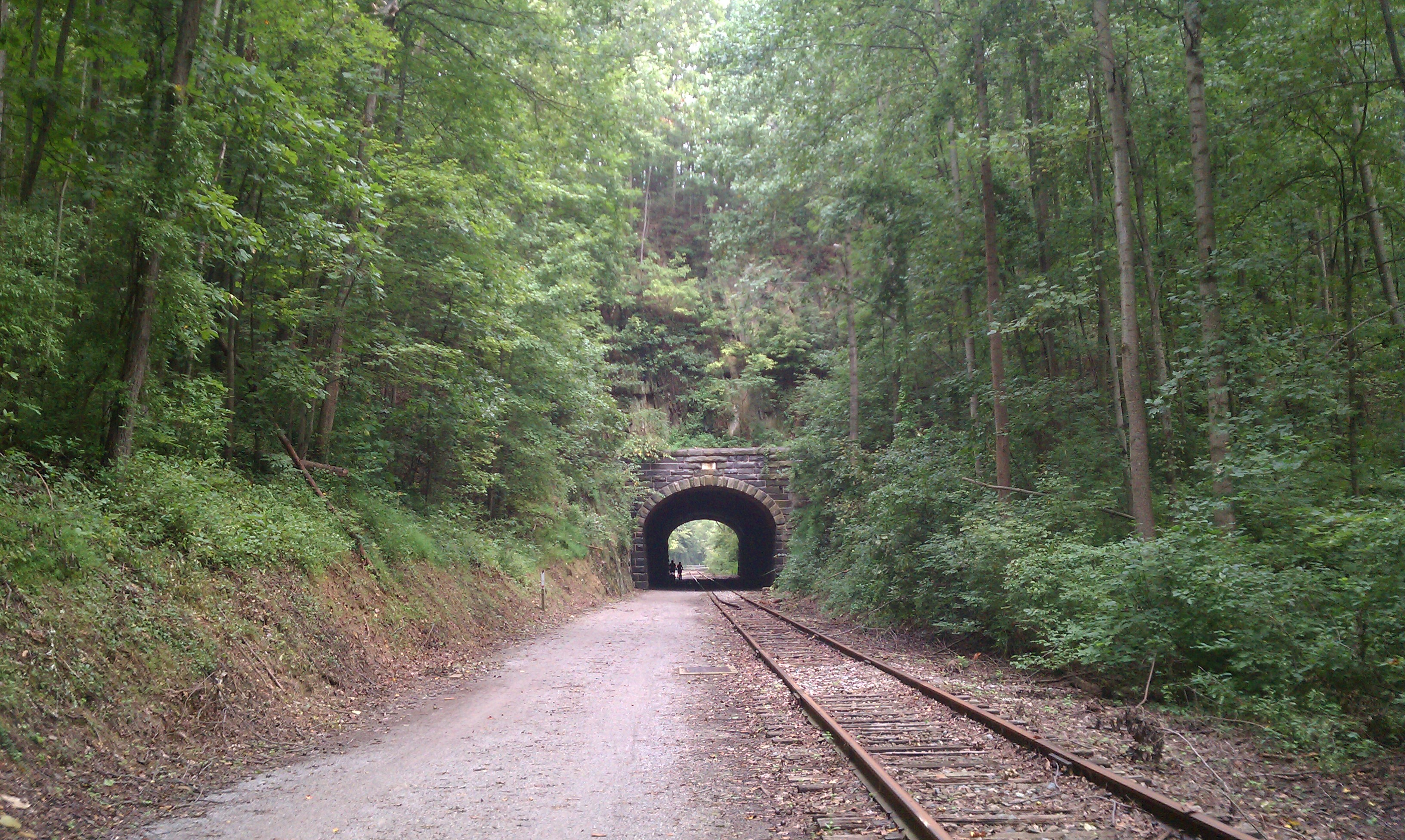 Semi-distant view of the Howard Tunnel, looking north (its south portal).